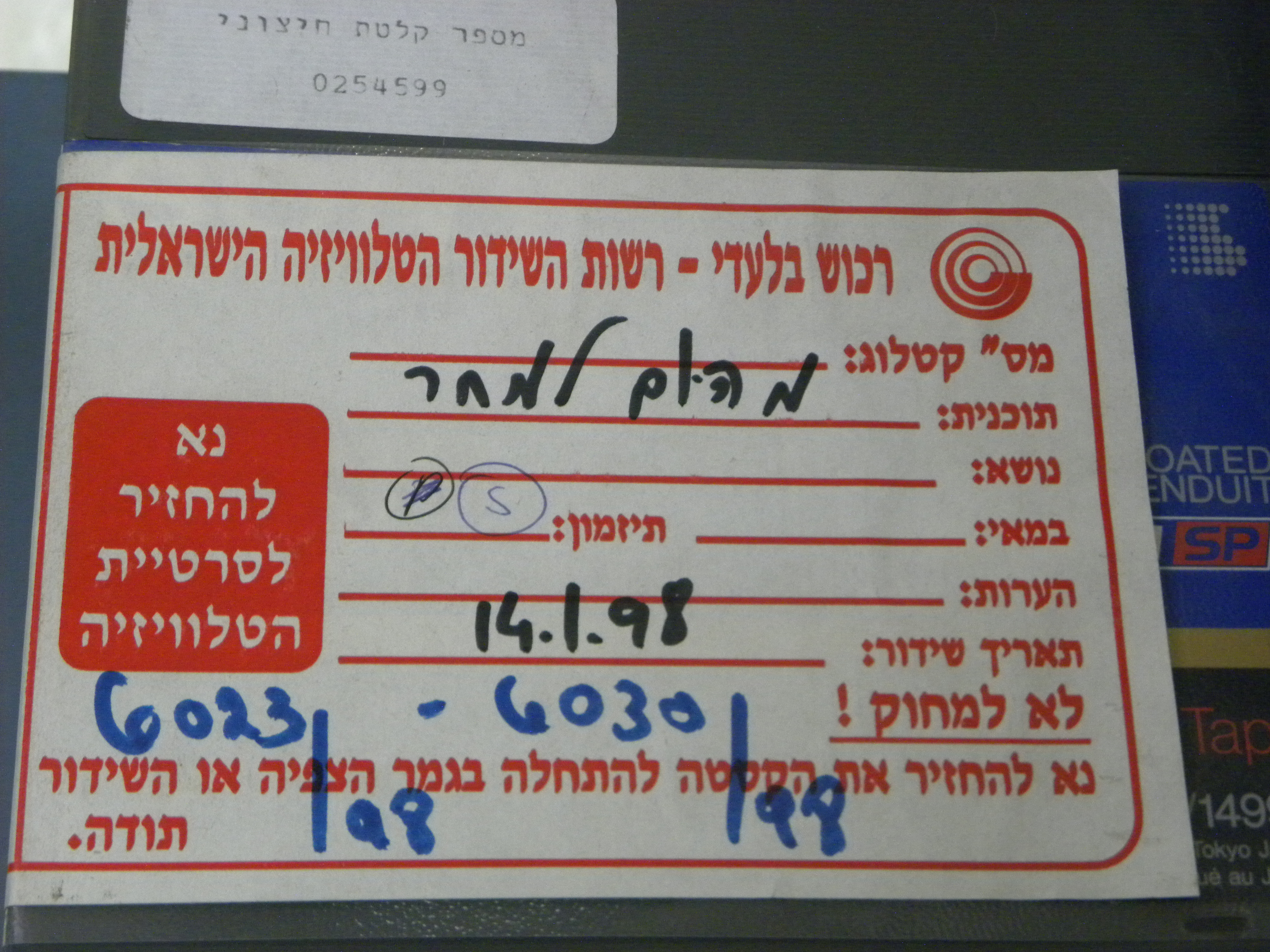 Israel Broadcasting Authority's archive of television recordings